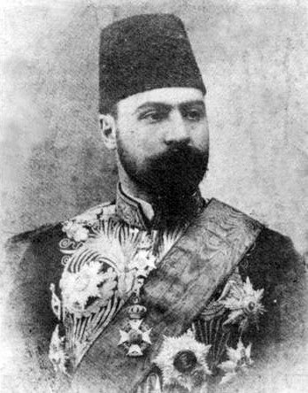 Hassan Pirnia (1872-1935)), prime minister of Iran